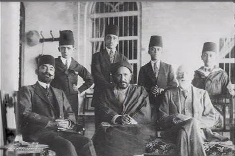 Historical photo of Talib al-Naqib, Khaz'al al-Ka'bi, and Hugh Bell.